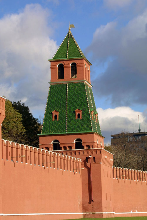 Moscow, the Kremlin. Pervaya Bezymyannaya Tower.